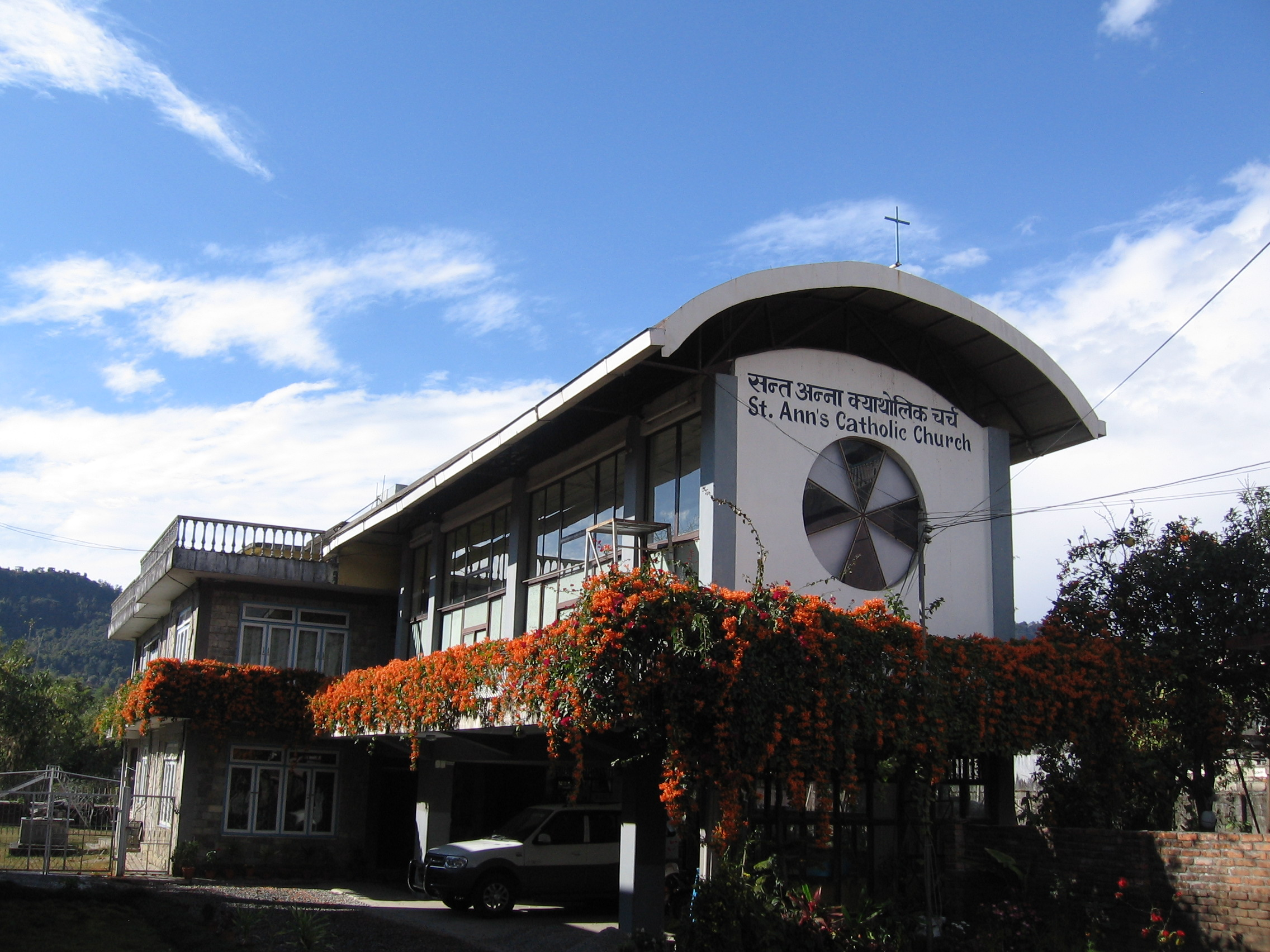 St Ann's Church is the Catholic parish church of Pokhara in West-Central Nepal.